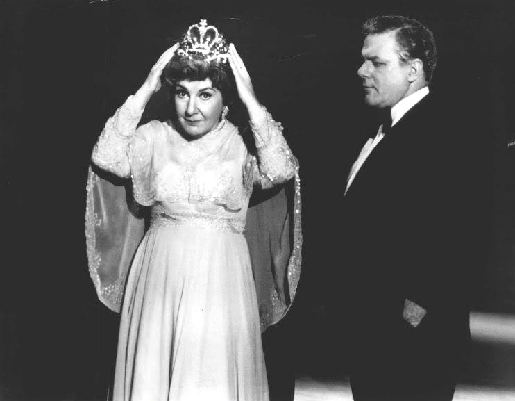 Photo of Maureen Stapleton and Charles Durning from the 1975 made for television film Queen of the Stardust Ballroom.